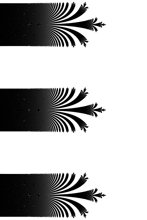 This image illustrates the iteration of the function f ( z ) = z + 1 + e − z {\displaystyle f(z)=z+1+e^{-z , first studied by Fatou. The white region corresponds to points that converge to infinity through the right half plane, while the black part of the image is an approximation to the Julia set.